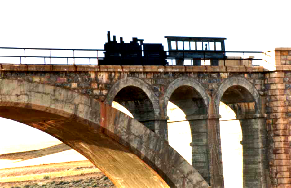 "The Dream, sculpture, Alfambra (Aragón)